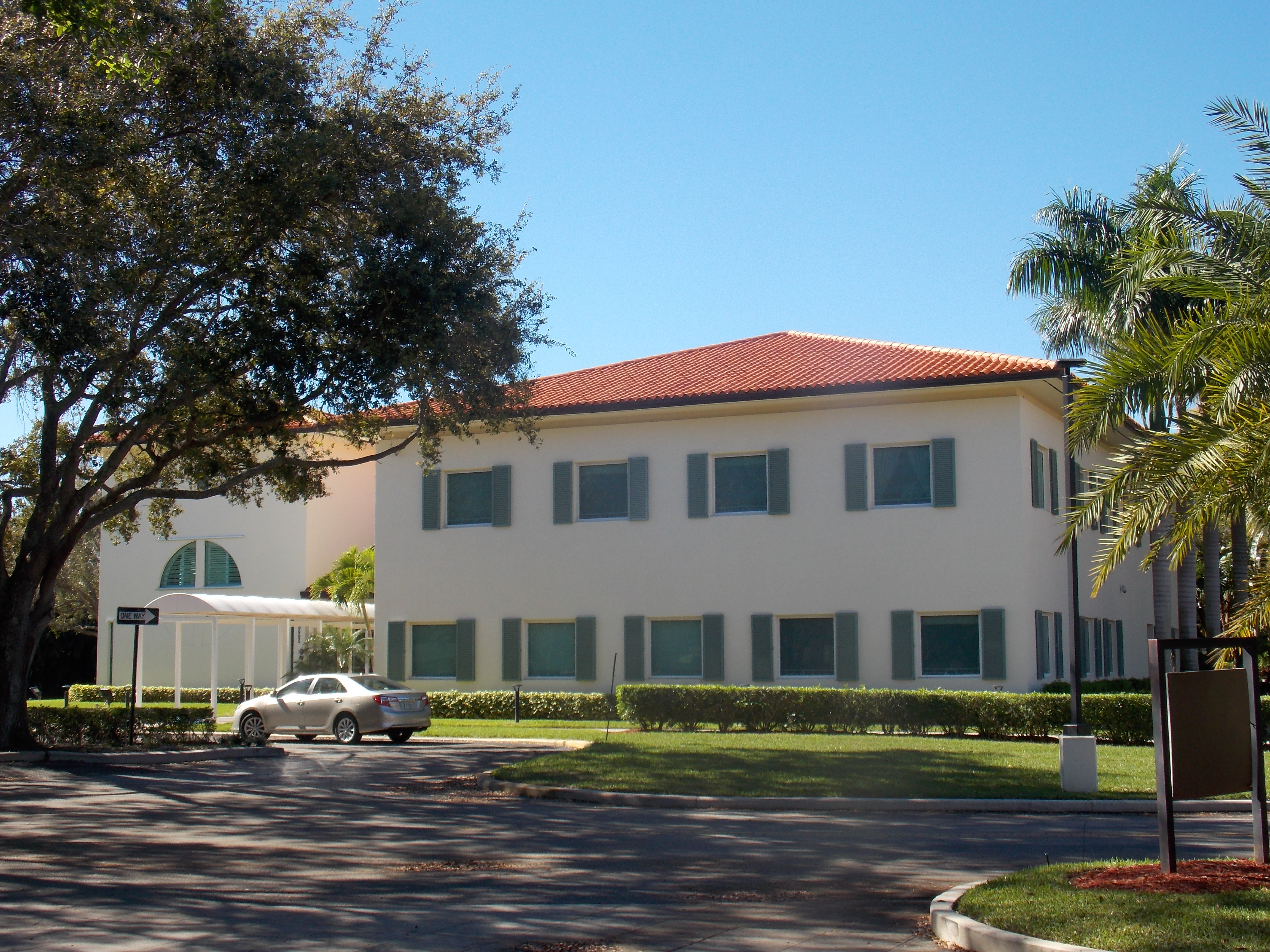 The Pastoral Center of the Catholic Diocese of Palm Beach in Palm Beach Gardens, Florida.